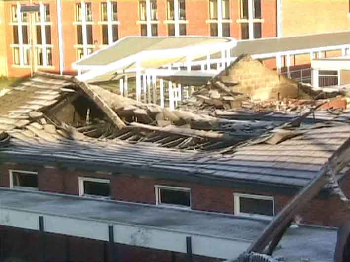 The building after the electrical fire.